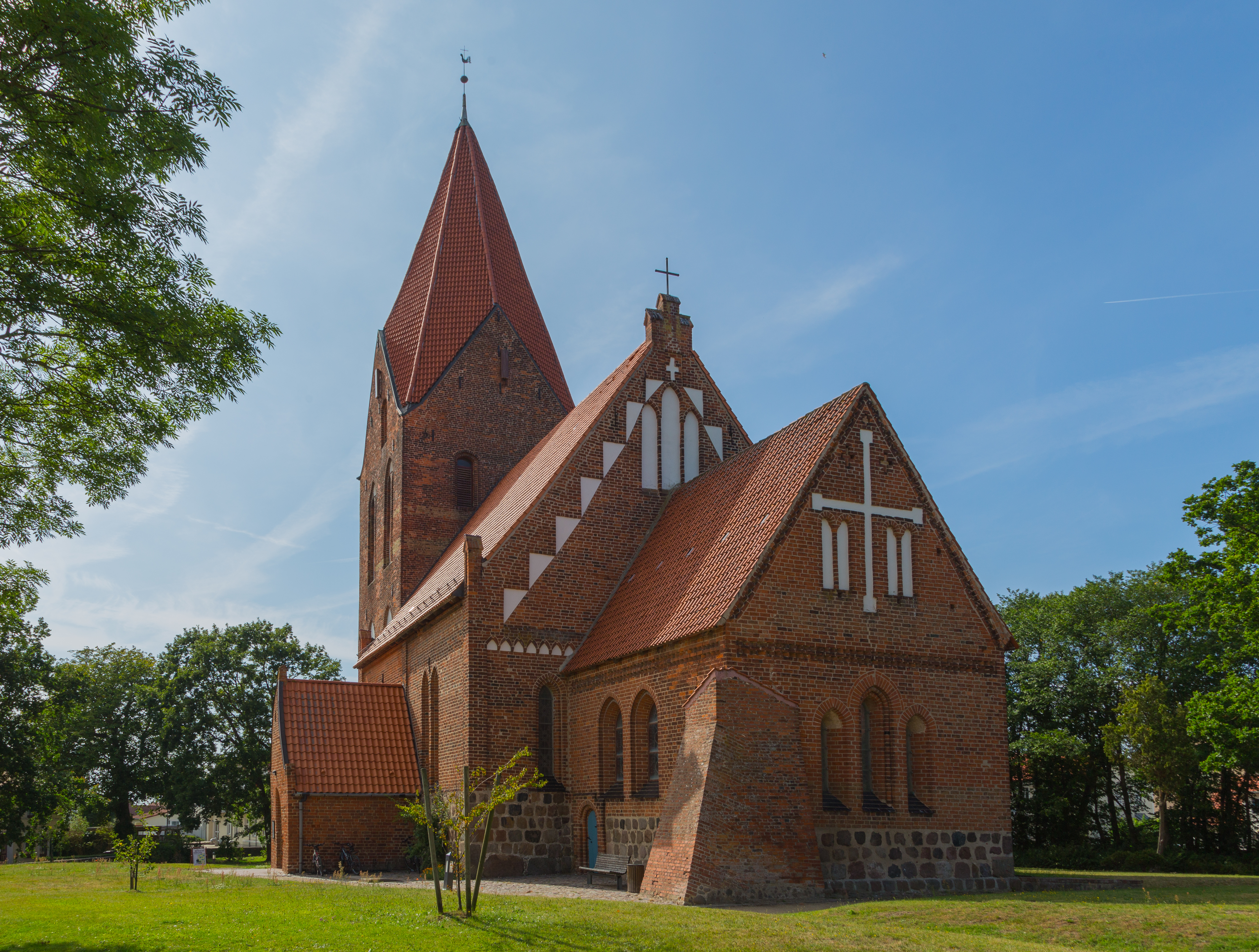 The Lutheran St John's Parish Church (Pfarrkirche St. Johannes) in Rerik, Landkreis Rostock, Mecklenburg-Vorpommern, Germany. The church is a listed cultural heritage monument.